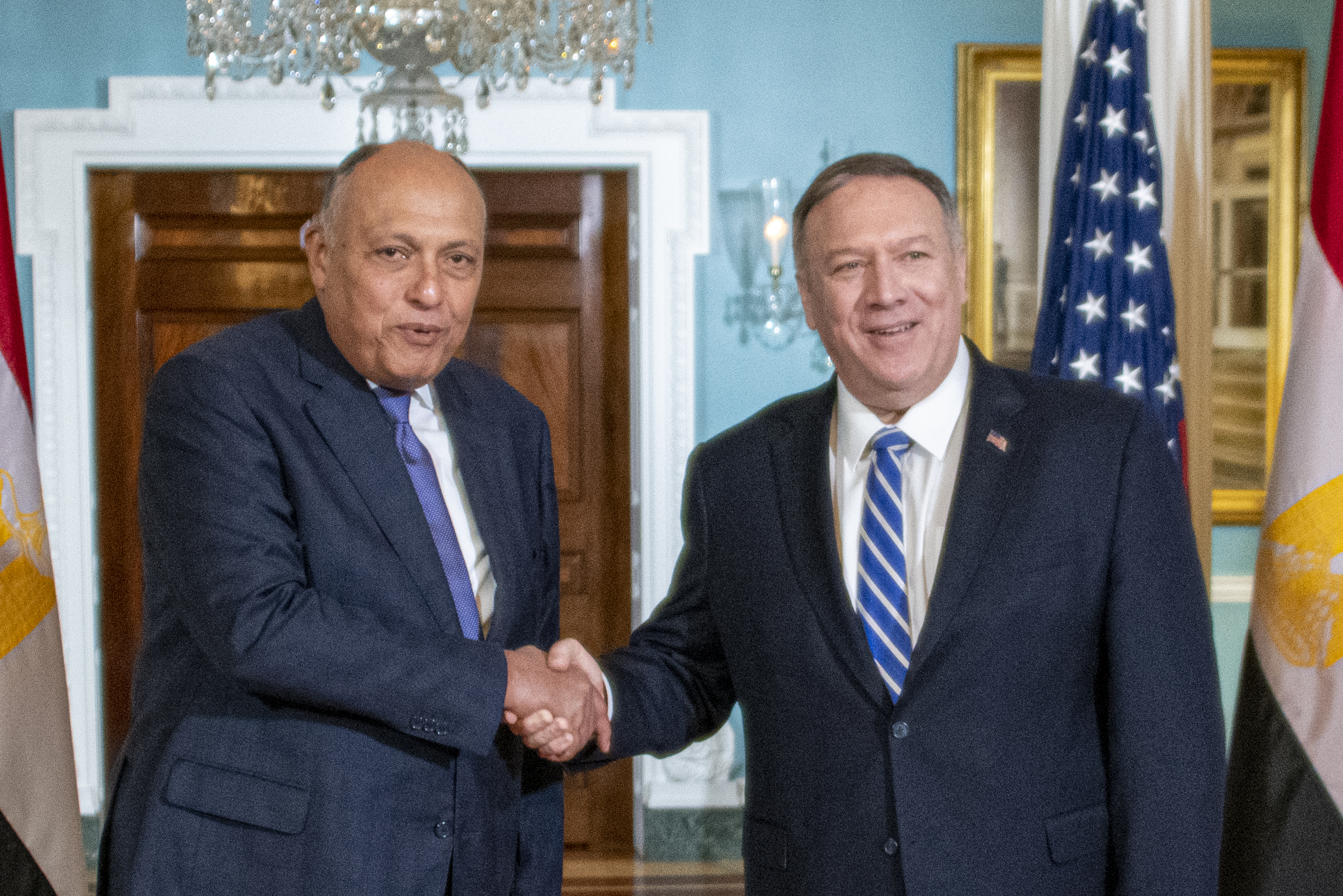 Secretary of State Michael R. Pompeo meets with Egyptian Foreign Minister Sameh Shoukry, at the Department of State in Washington, D.C., on December 9, 2019. [State Department photo by Freddie Everett/ Public Domain]